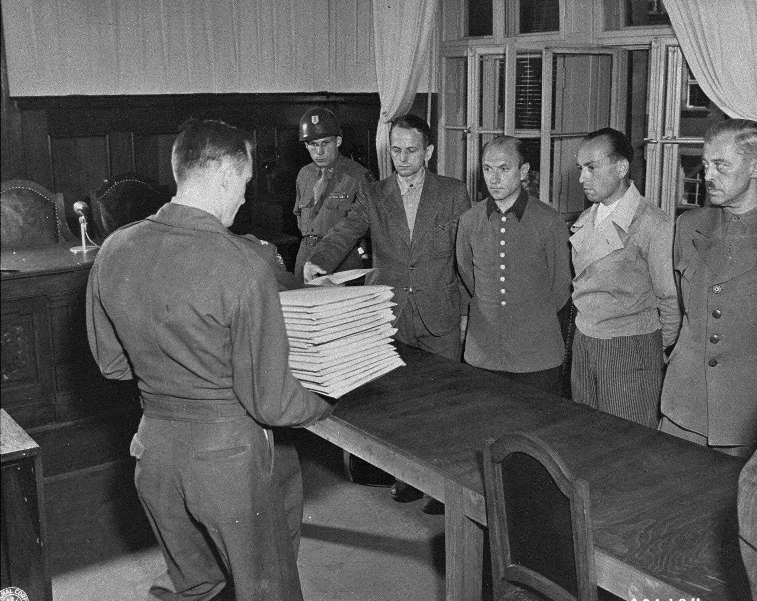 Defendant Otto Ohlendorf (left) receives his indictment from Col. C.W. Mays, Marshal of the Military Tribunal, before the Einsatzgruppen Trial. The other defendants (left to right) are, Heinz Jost, Erich Naumann, and Erwin Schulz.